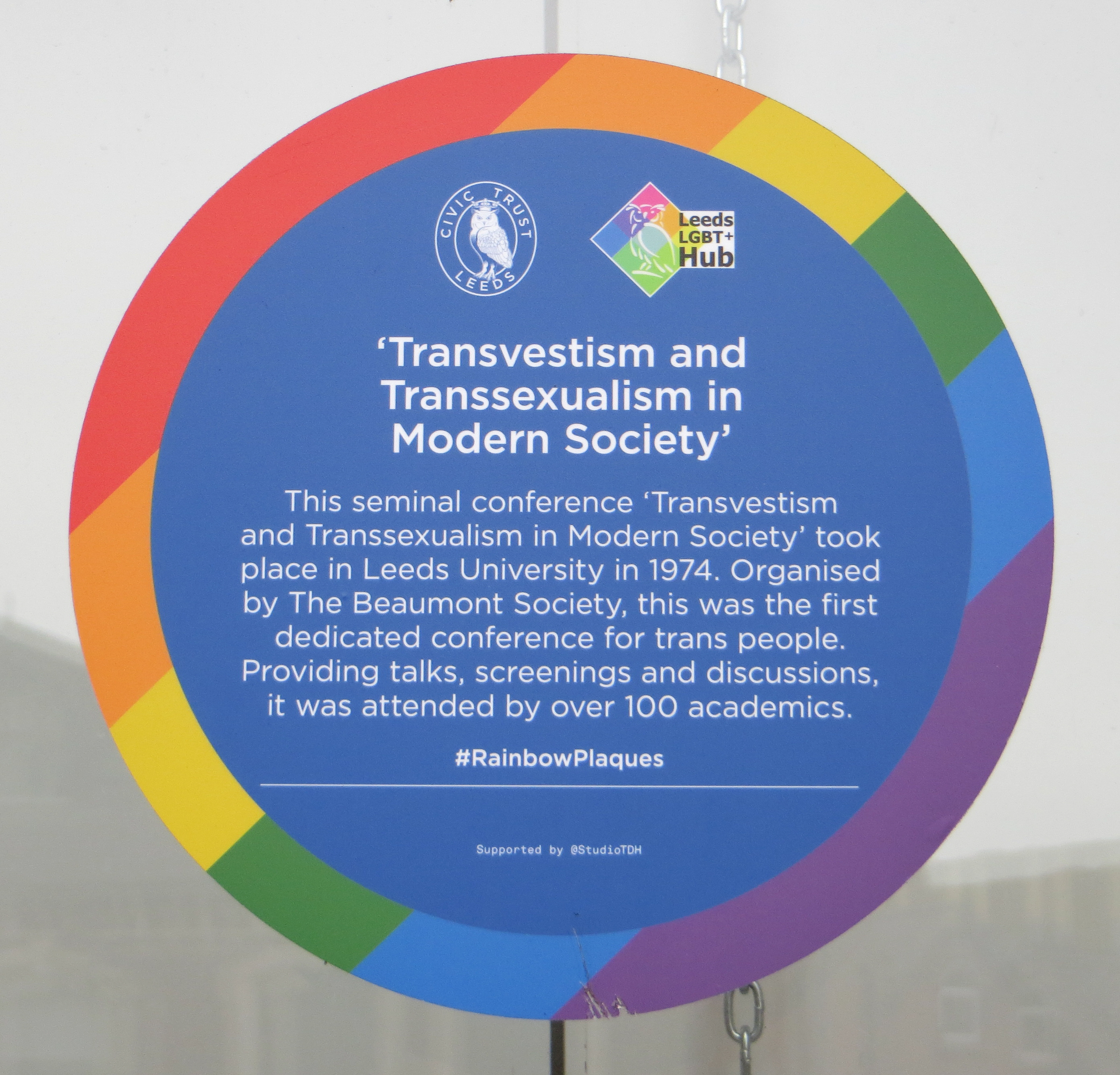 Rainbow plaque number 13 on the front of the Parkinson Building, University of Leeds. Celebrating the first trans conference.